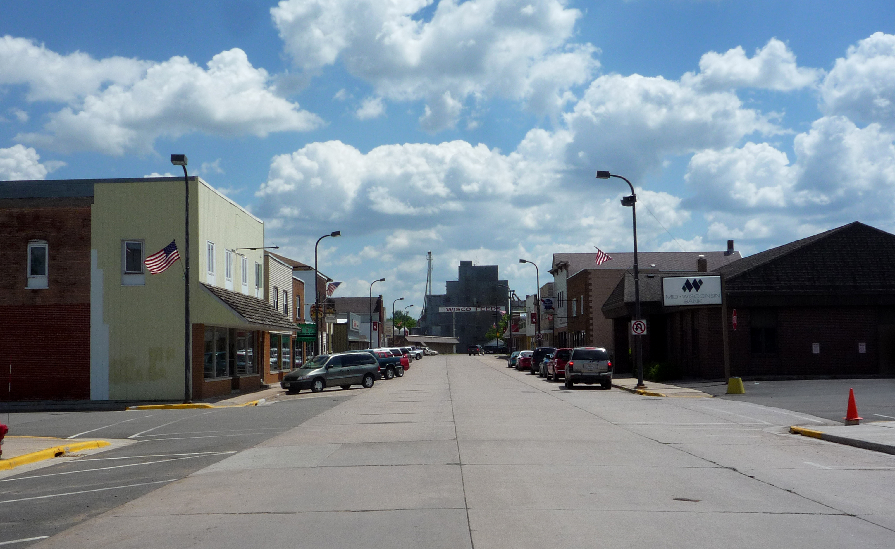 Looking down First Street in downtown Abbotsford, Wisconsin, USA.